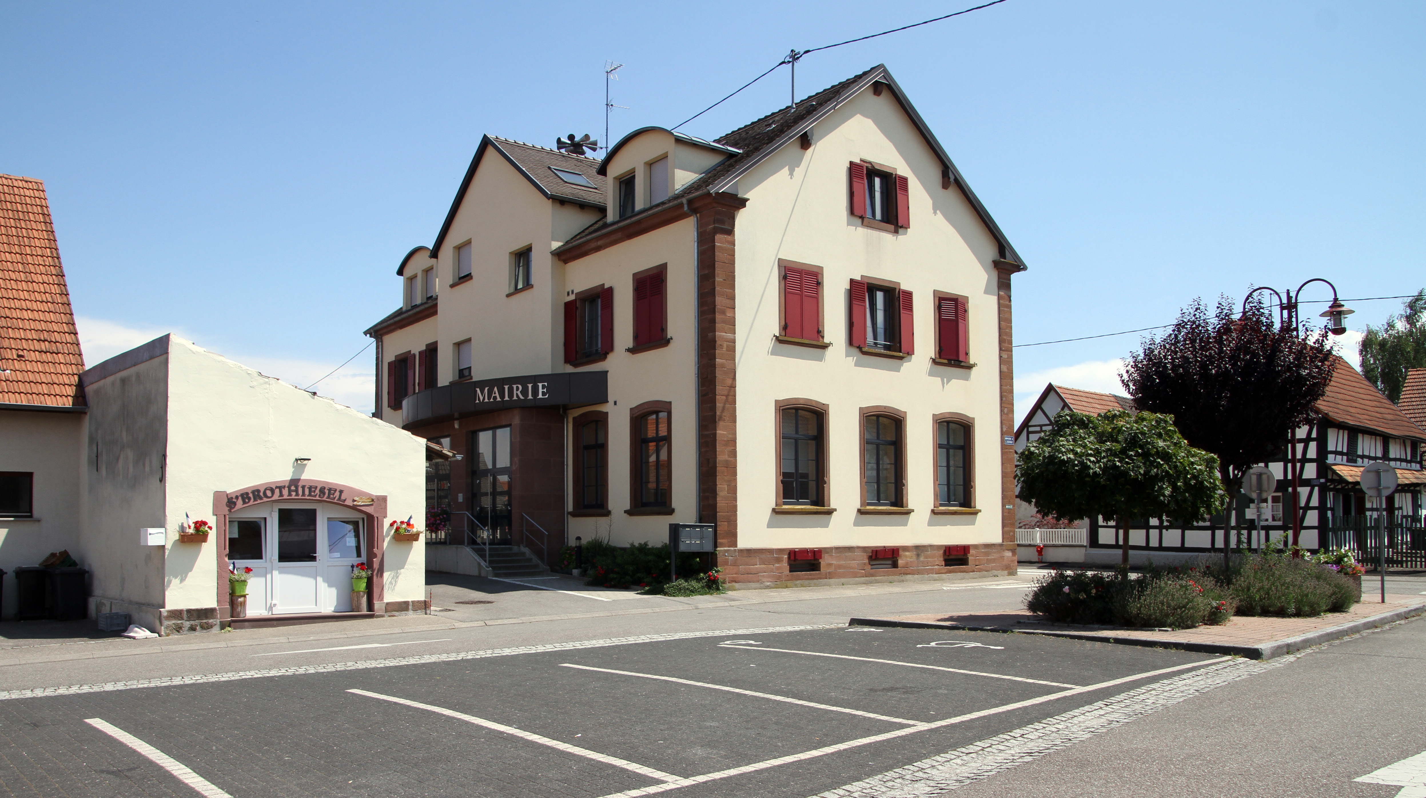 City hall of Leutenheim.